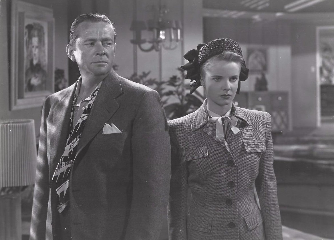 James Dunn & Mona Freeman in That Brennan Girl - publicity still (cropped)